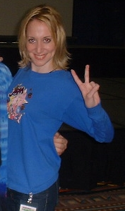 Jessica Calvello with founder Chris Zasada at Ohayocon 2002.